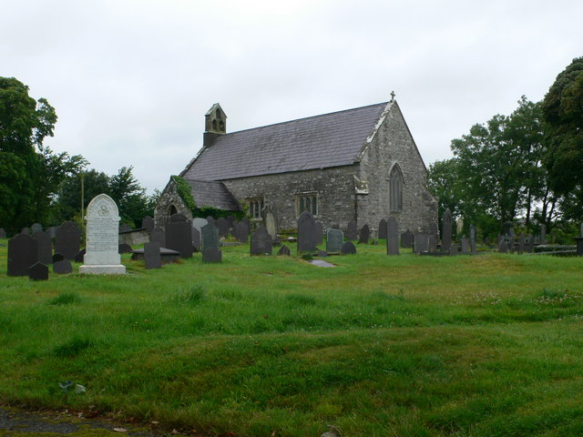 St Llwydian's Church, Heneglwys Bodffordd parish church...stands in the centre of the parish. It was rebuilt of the old materials and on the original foundations in 1845. The walls are of rubble and the roof slated. Carved stones reset in the walls indicate an original 12th-century church, and windows of the late 14th and 15th centuries are in the N and S walls'.